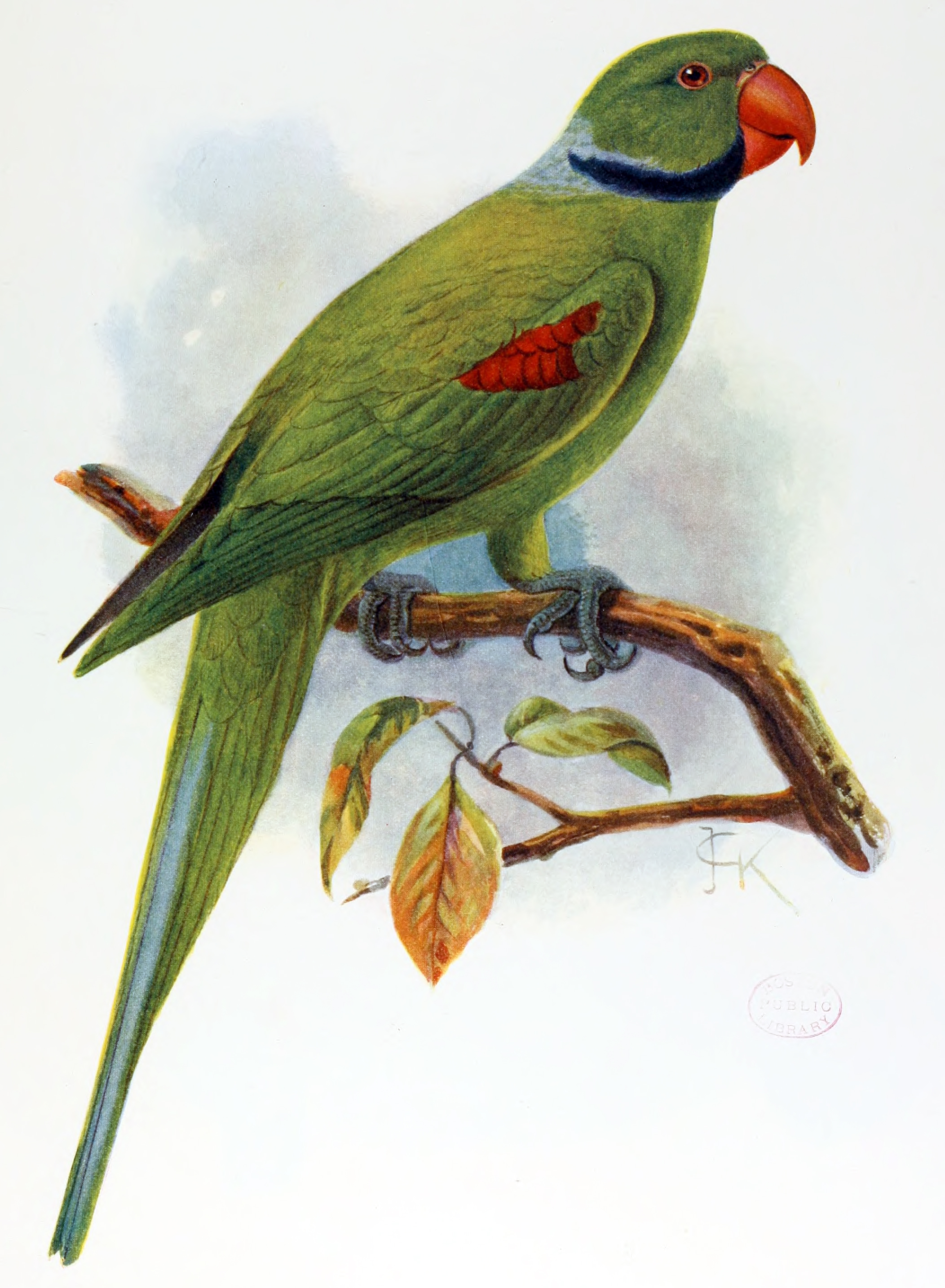 Seychelles Parakeet (Psittacula wardi), depiction by John Gerrard Keulemans from 'Extinct Birds' by Lionel Walter Rothschild from the year 1907.